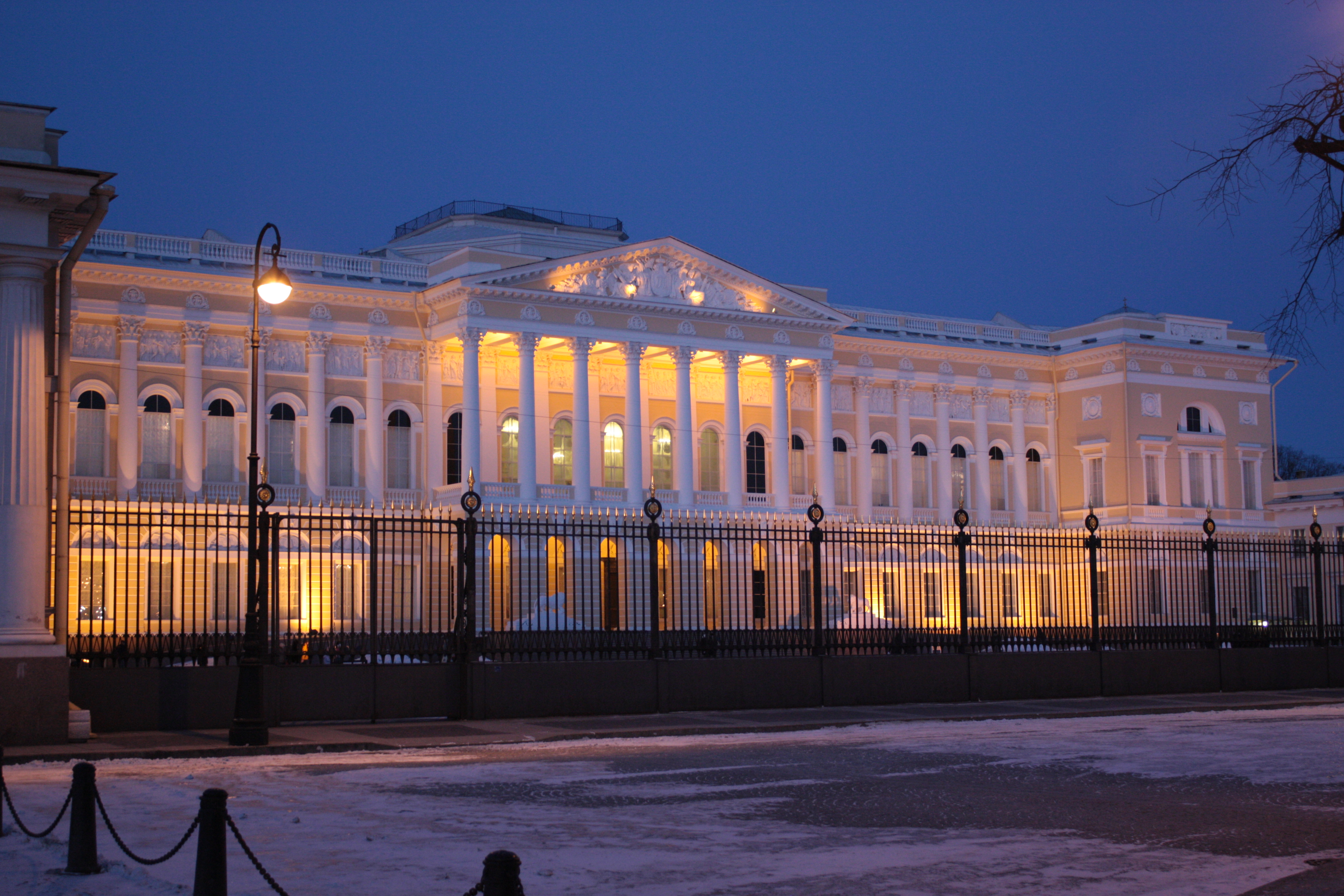 Russian Museam in early evening.